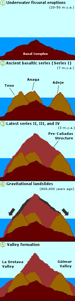 Diagram summarizing the formation of Tenerife